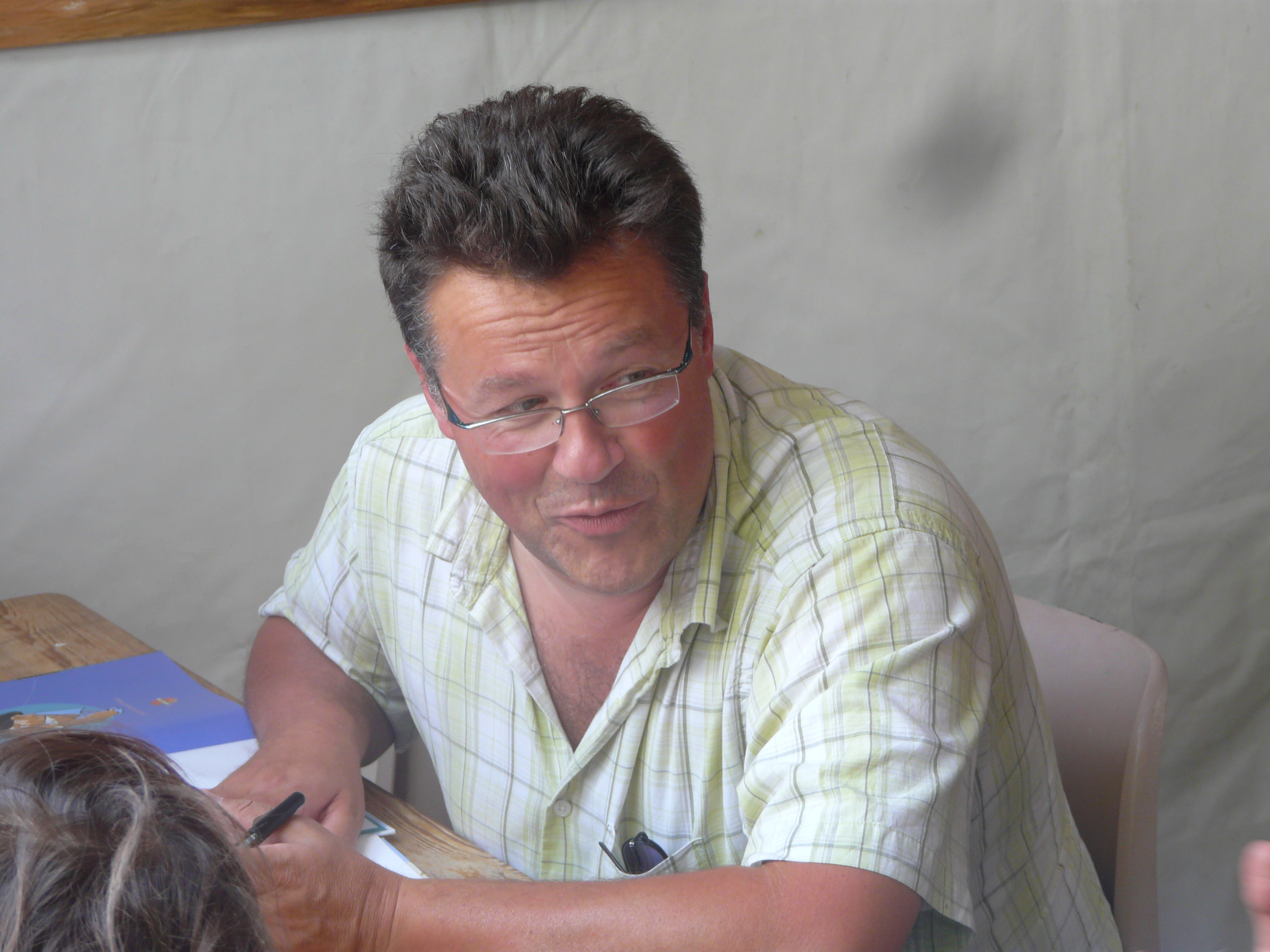 Photographs taken during the International Comic Festival of Sollies Ville, France